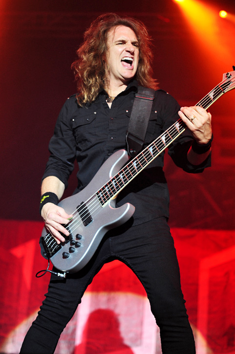 Dave Ellefson, bassist of Megadeth, performing live at No Sleep Til Festival 2010.